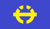 Flag of Zamami Okinawa